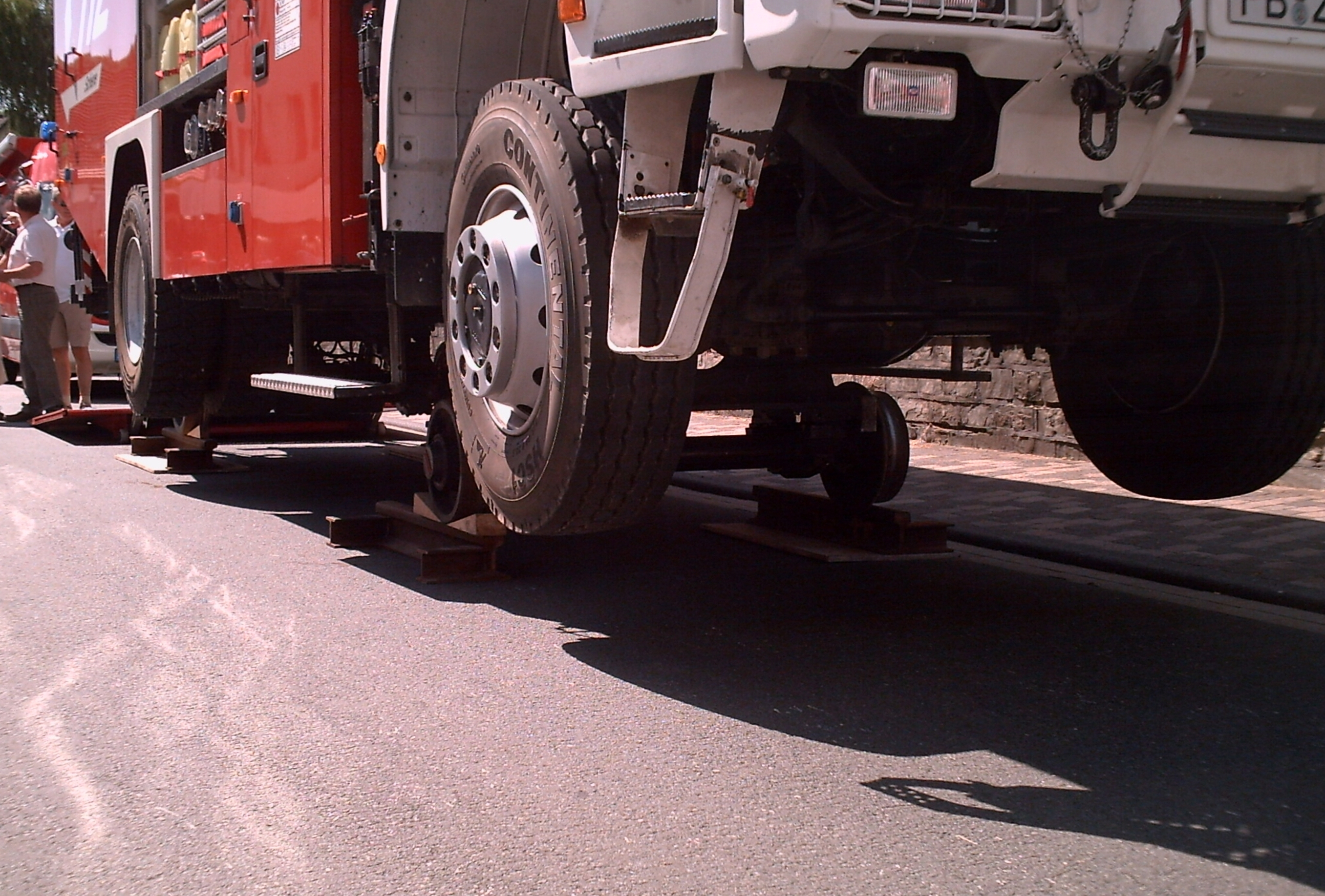 Road-rail vehicle, that as a special firetruck can dirve on roads and rail tracks - important for fires in tunnels. The truck is stationed in Altenbeken, Germany